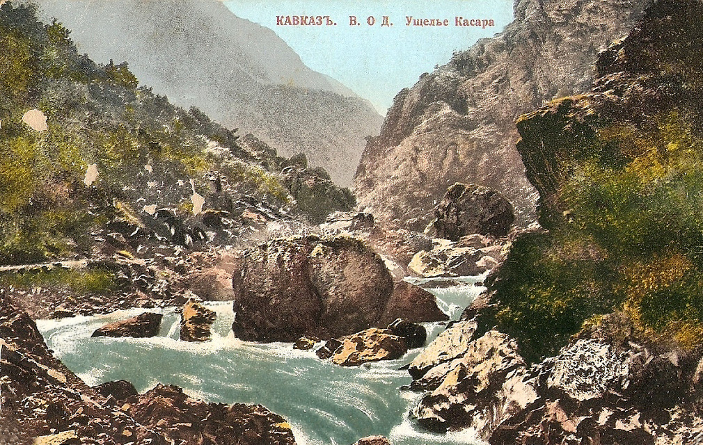 Caucasus. Qasara Gorge. Pre-1917 Russian Postcard Flickr data on 2011-08-13 Tags: Caucasus, Gorge, Qasara, Kasara, Postcard License: CC BY-SA 2.0 User: paukrus Ruslan